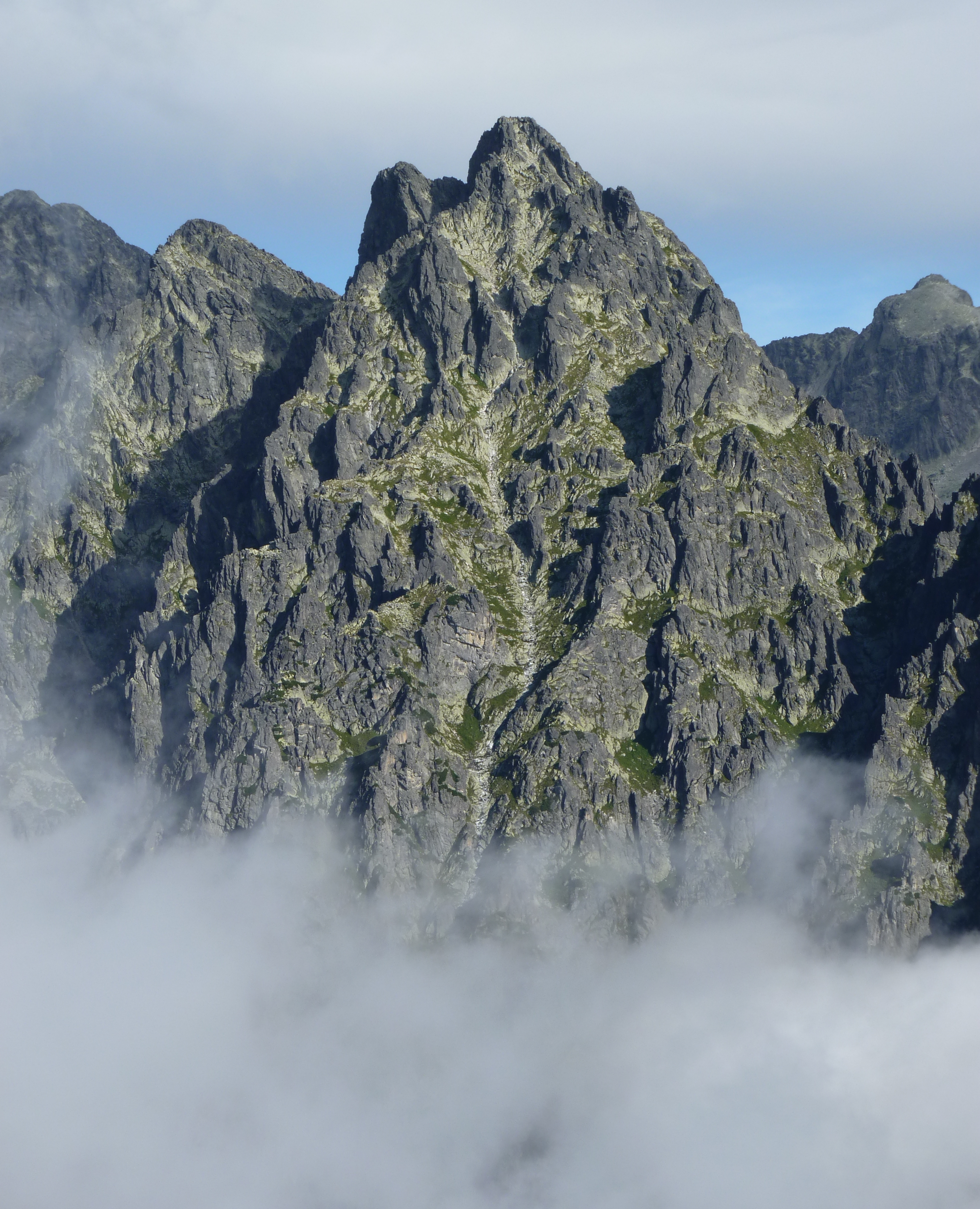 Prostredný hrot mountain, Tatra Mountains, Slovakia